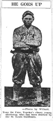 newspaper photo of the player